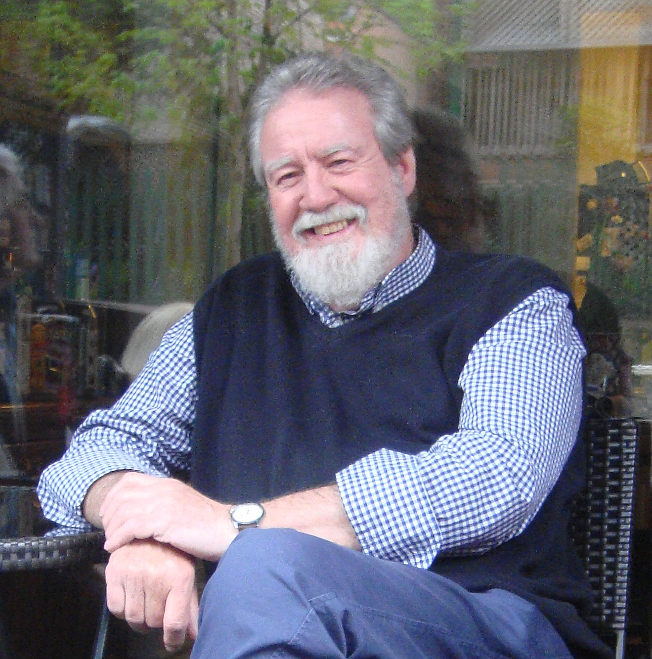 Michael Mills in 2016